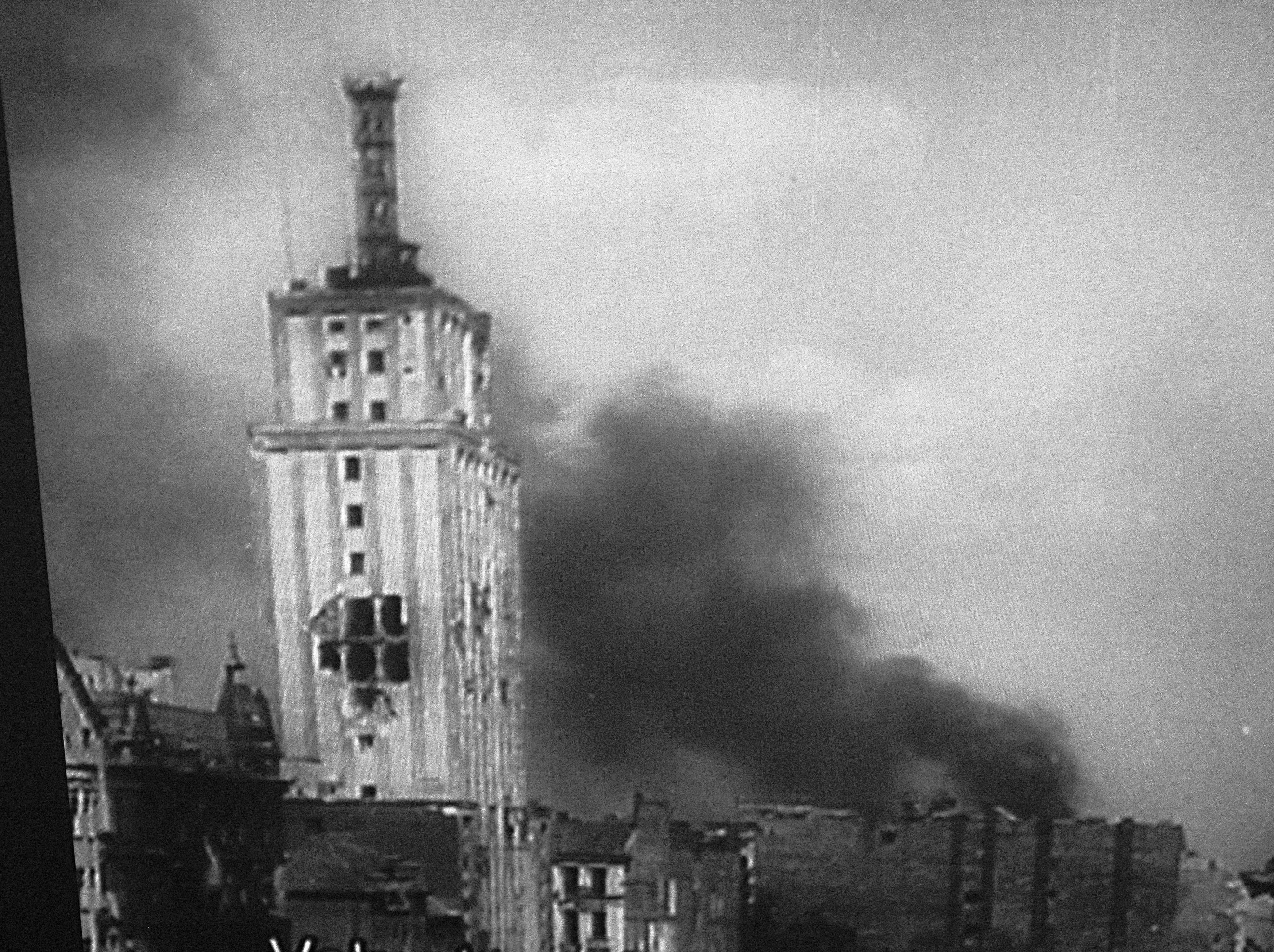 Made on a summer day in Warsaw's Warsaw Rising Museum; A screenshot from the WWII war movie chronicle made and shown during the Warsaw Uprising in the Palladium cinema.